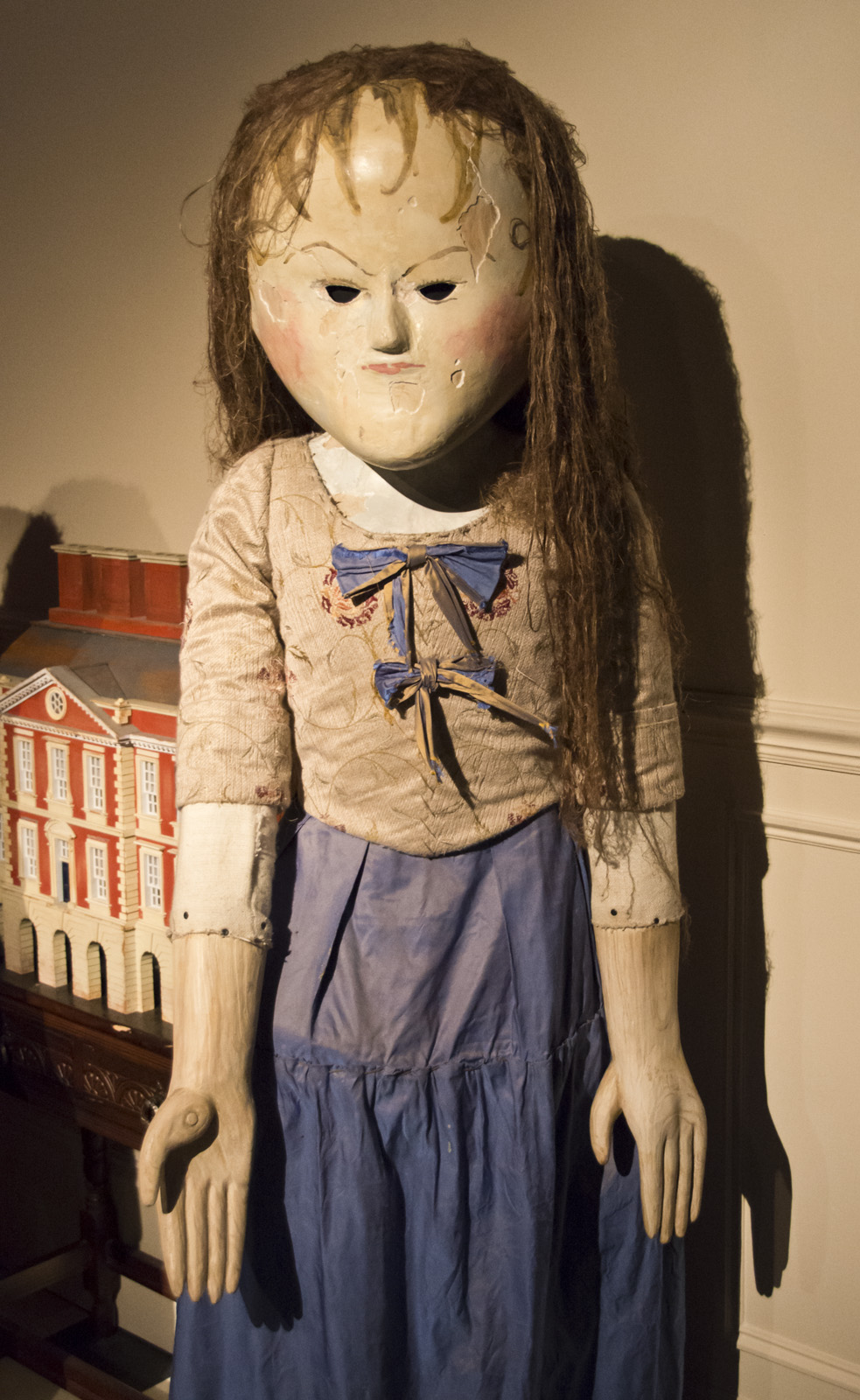 Doctor Who Experience